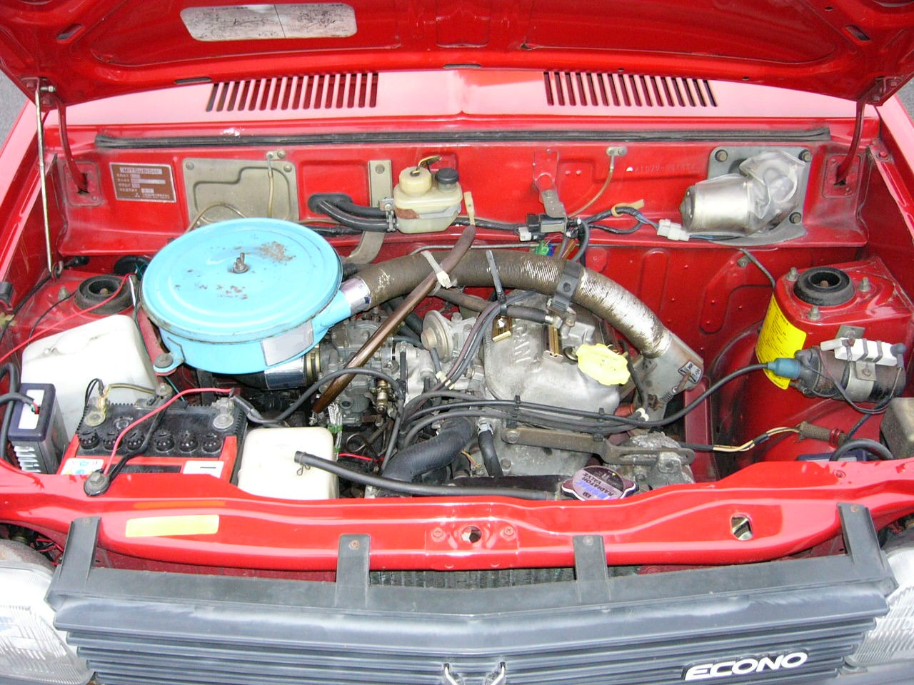 2G23 engine is mounted in a 4th generation Mitsubishi Minica Econo.